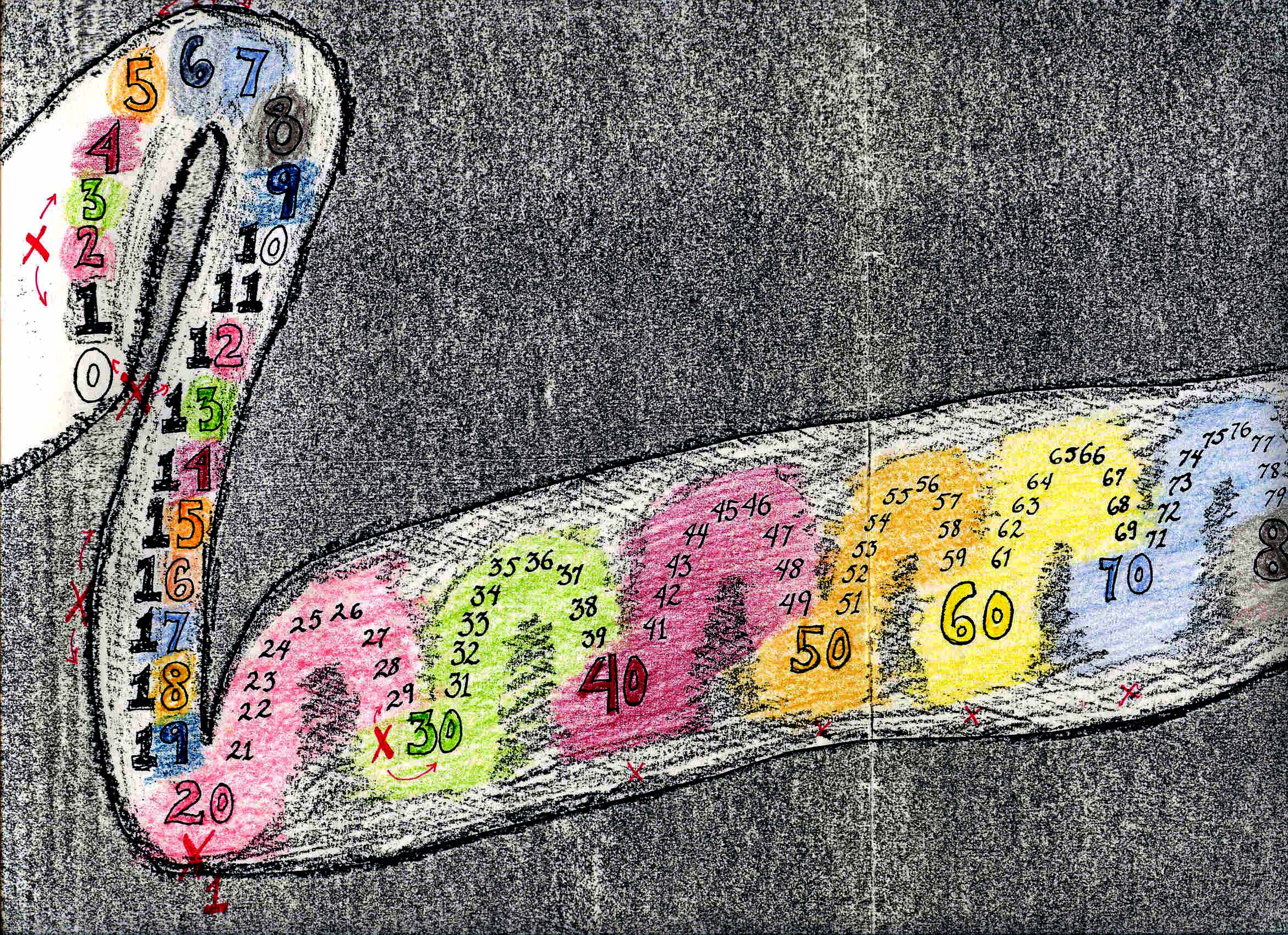 Synesthetic number form. Richard E. Cytowic, from Cytowic & Eagleman (2009), "Wednesday is Indigo Blue: Discovering the Brain of Synesthesia." MIT Press